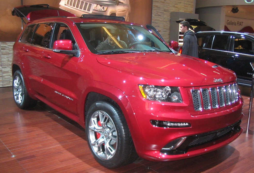 2012 Jeep Grand Cherokee SRT-8 photographed in Montreal, Quebec, Canada at the 2012 Montreal International Auto Show.